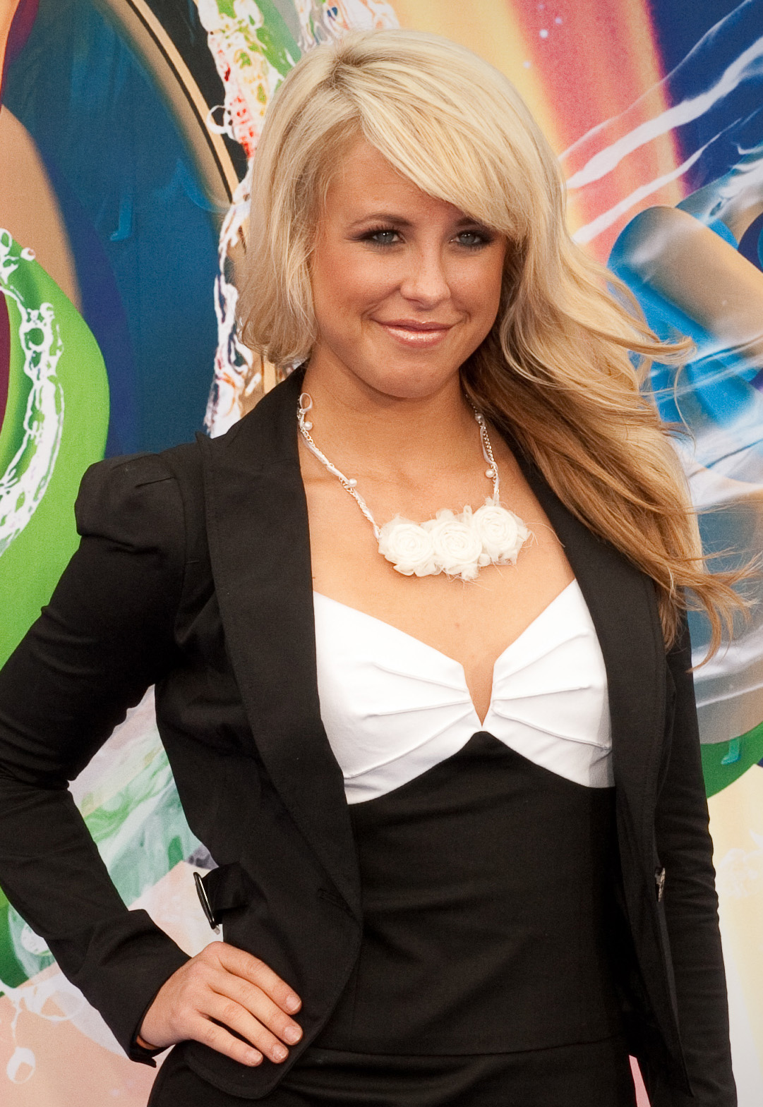 Chelsie Hightower- World of Color Premiere - Disney California Adventure Park